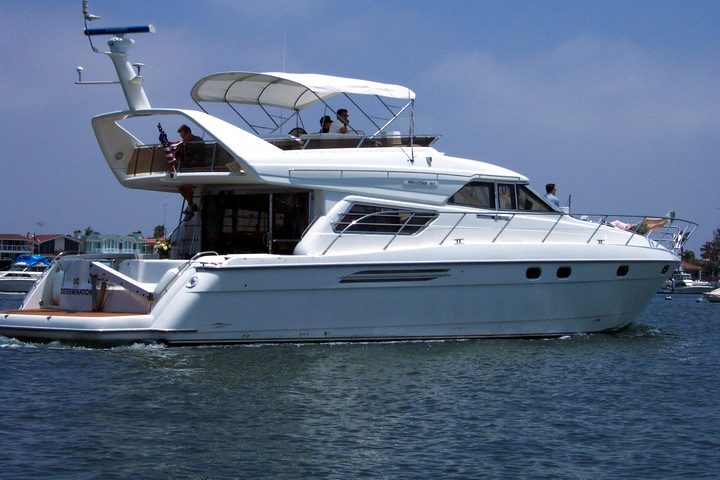 Princess 60 Yacht